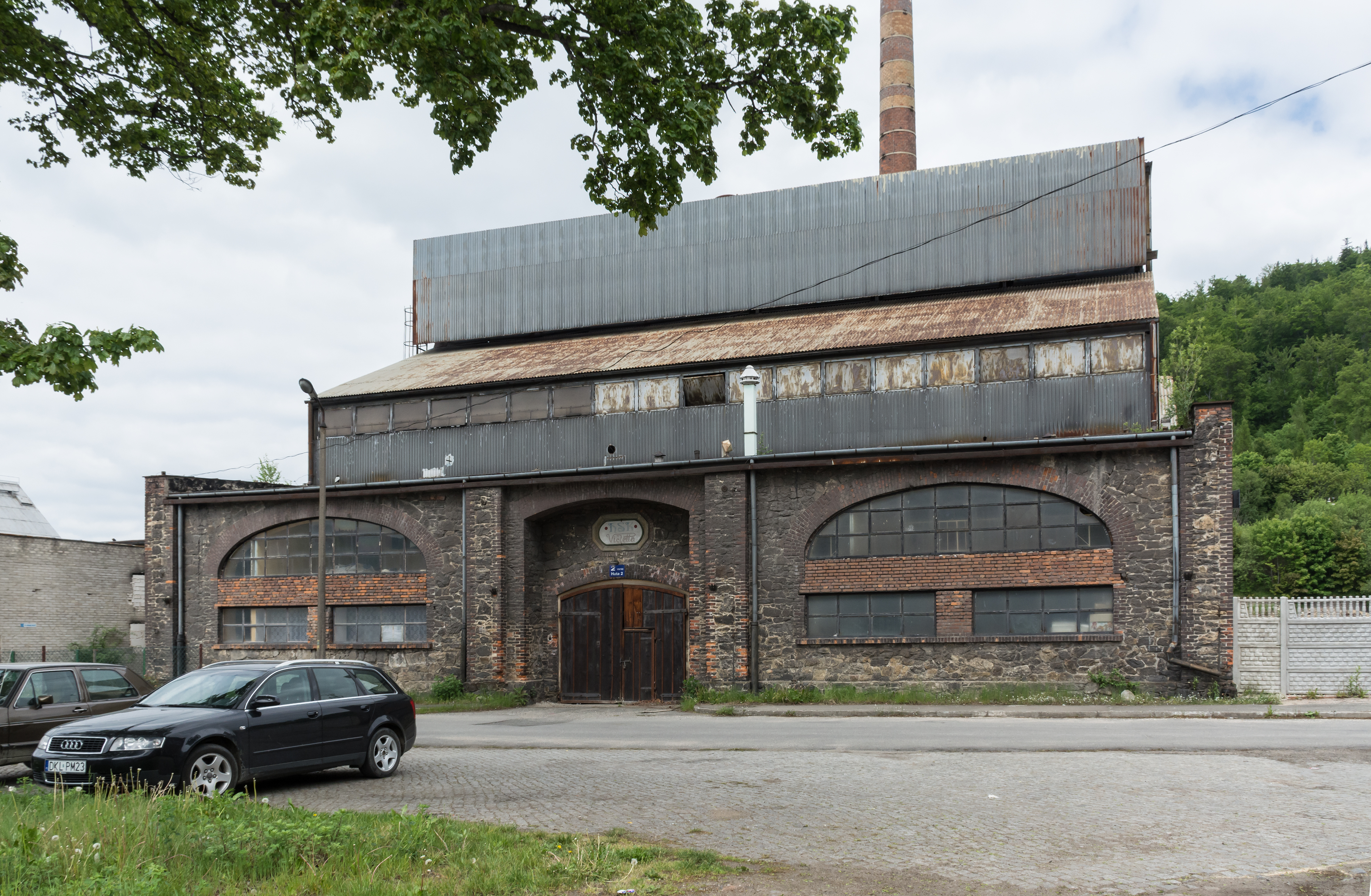 Crystal Glass Factory "Violetta" in Stronie Śląskie, the oldest building